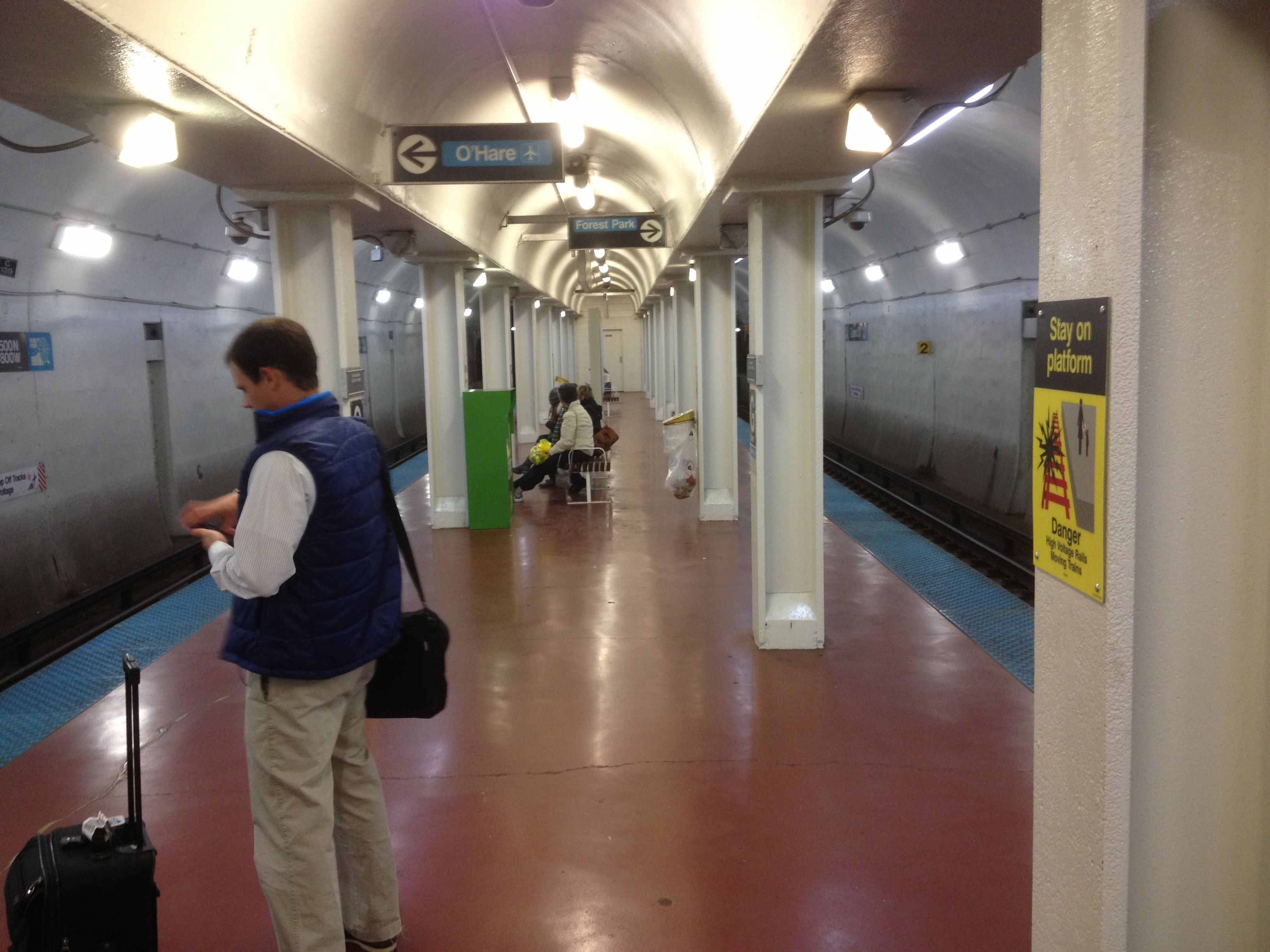 20121012 02 CTA Blue Line Subway @ Grand